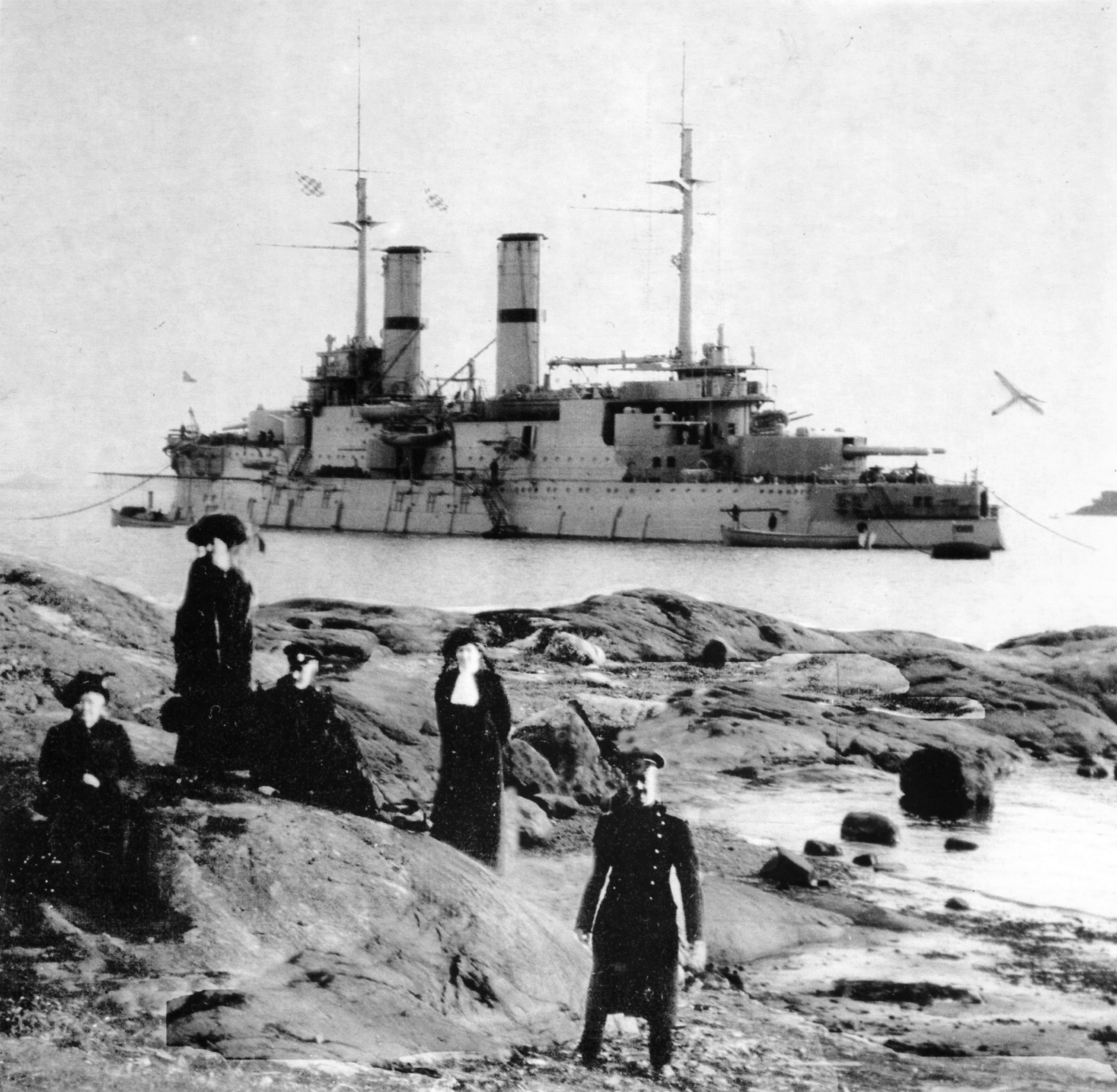 The Imperial Russian battleship «Slava» in Finland.